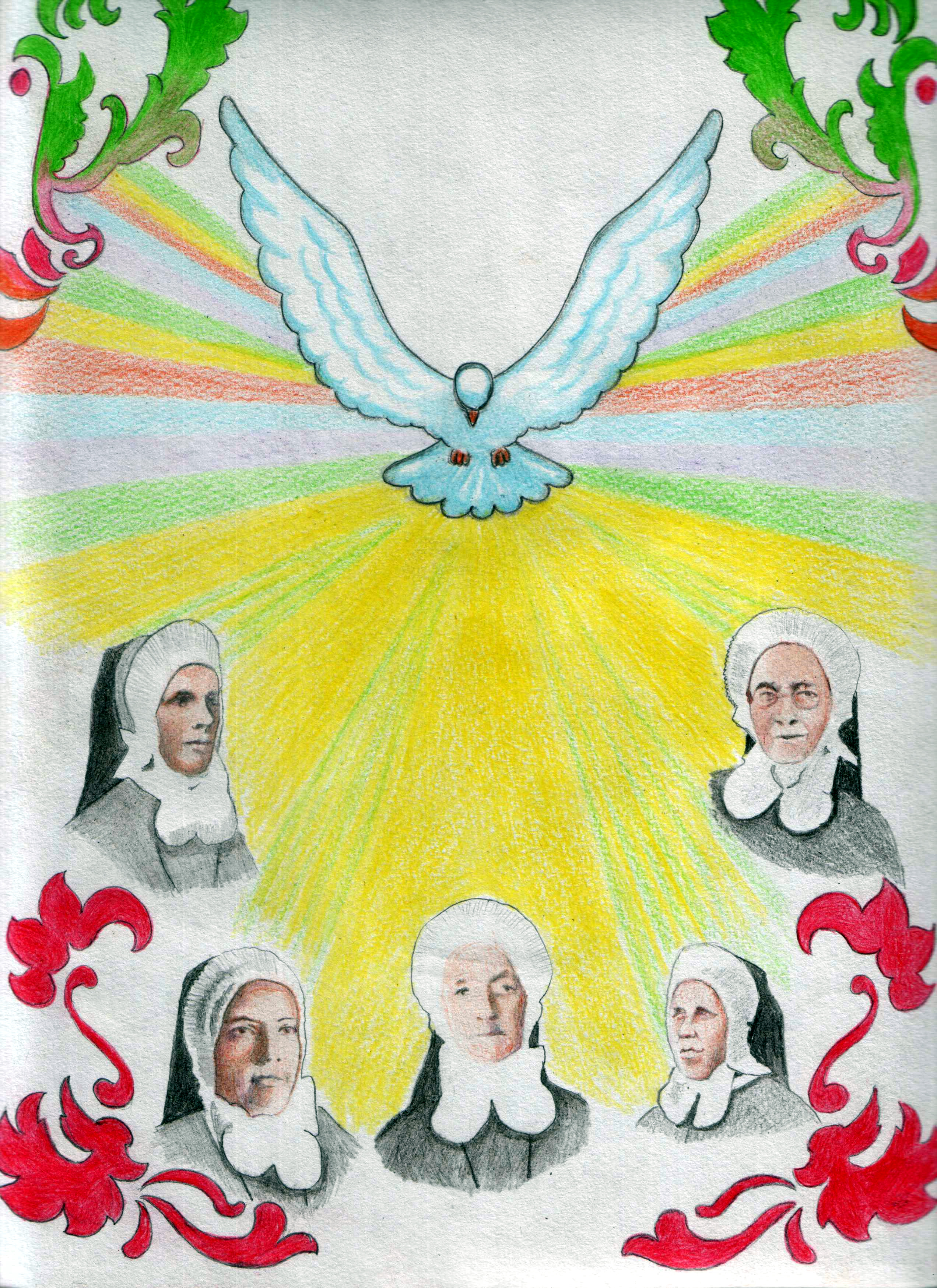 Drawing of Drina's martyrs. Drawing of István Tápai for Stebunik. Free license under Drina permission1.jpgAbove: Marija Antonija Fabjan, Marija Krizina Bojanc.Below: Marija Bernadeta Banja, Marija Berchmana Johanna Leidenix, Marija Jula Ivanišević.